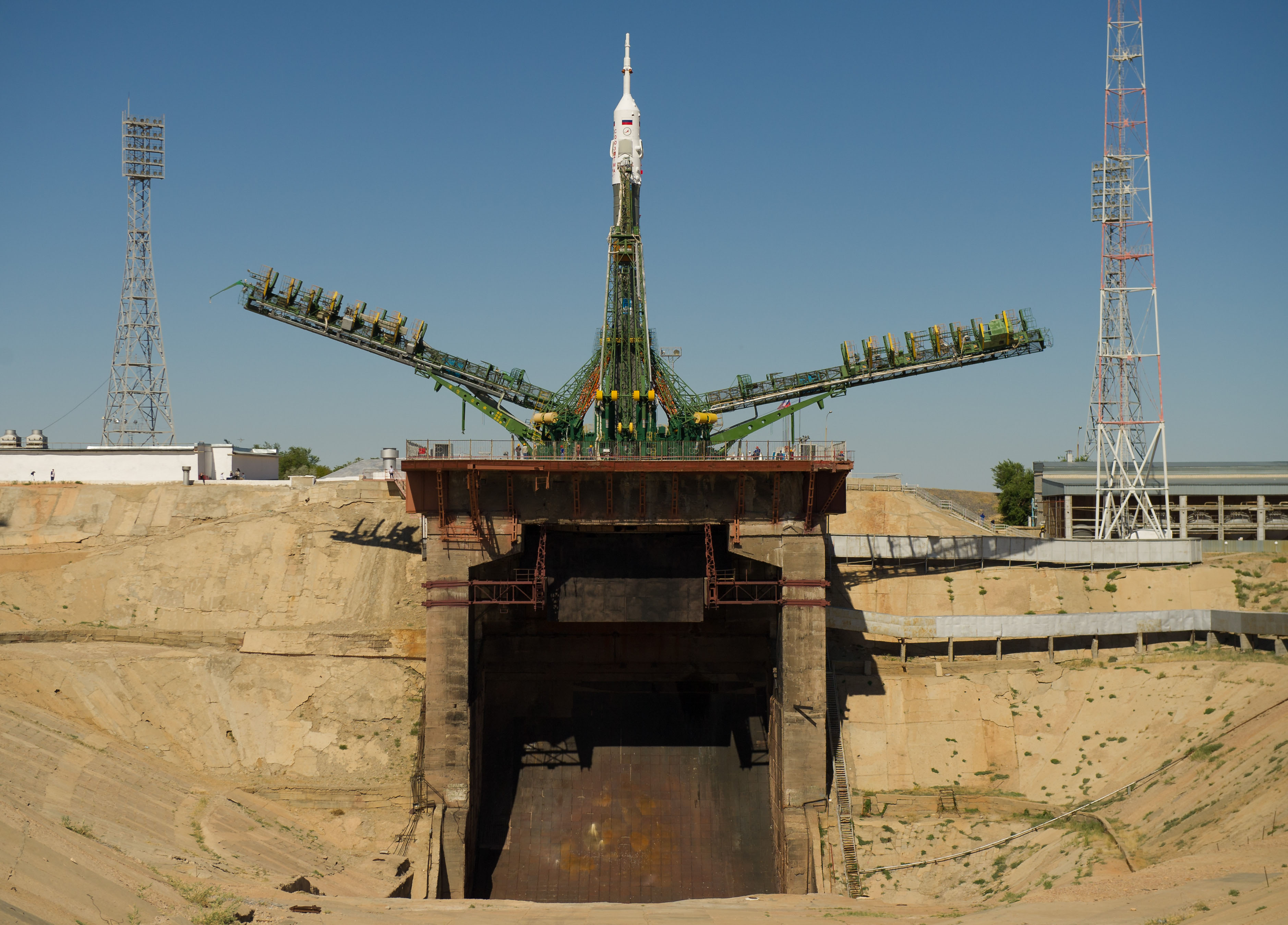 Large gantry mechanisms on either side of the Soyuz TMA-05M spacecraft are raised into position to secure the rocket at the launch pad on July 12, 2012 at the Baikonur Cosmodrome in Kazakhstan. The launch of the Soyuz spacecraft with Expedition 32 Soyuz Commander Yuri Malenchenko, NASA Flight Engineer Sunita Williams and Japan Aerospace Exploration Agency Flight Engineer Akihiko Hoshide is scheduled for July 15 (Kazakhstan time).